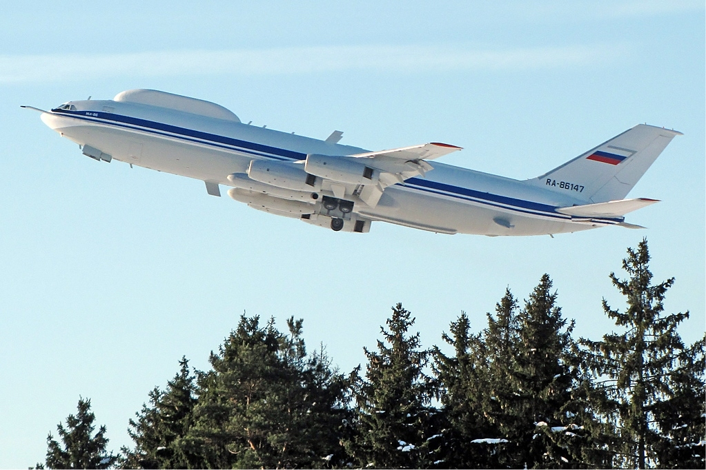 Russian Air Force Ilyushin Il-87 Aimak (Il-80/Il-86VKP)